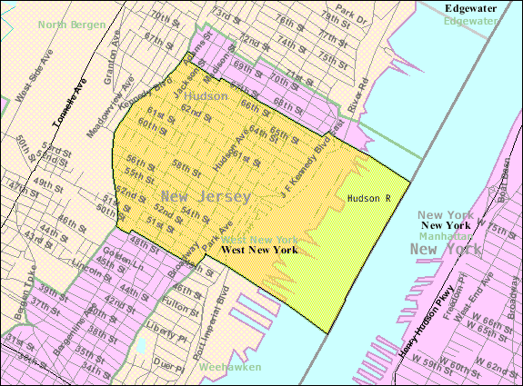 Census Bureau map of West New York